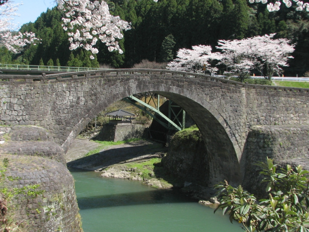 Reitai Bridge(霊台橋(Reitai Kyou)) in Misato Town,Kumamoto,Japan.